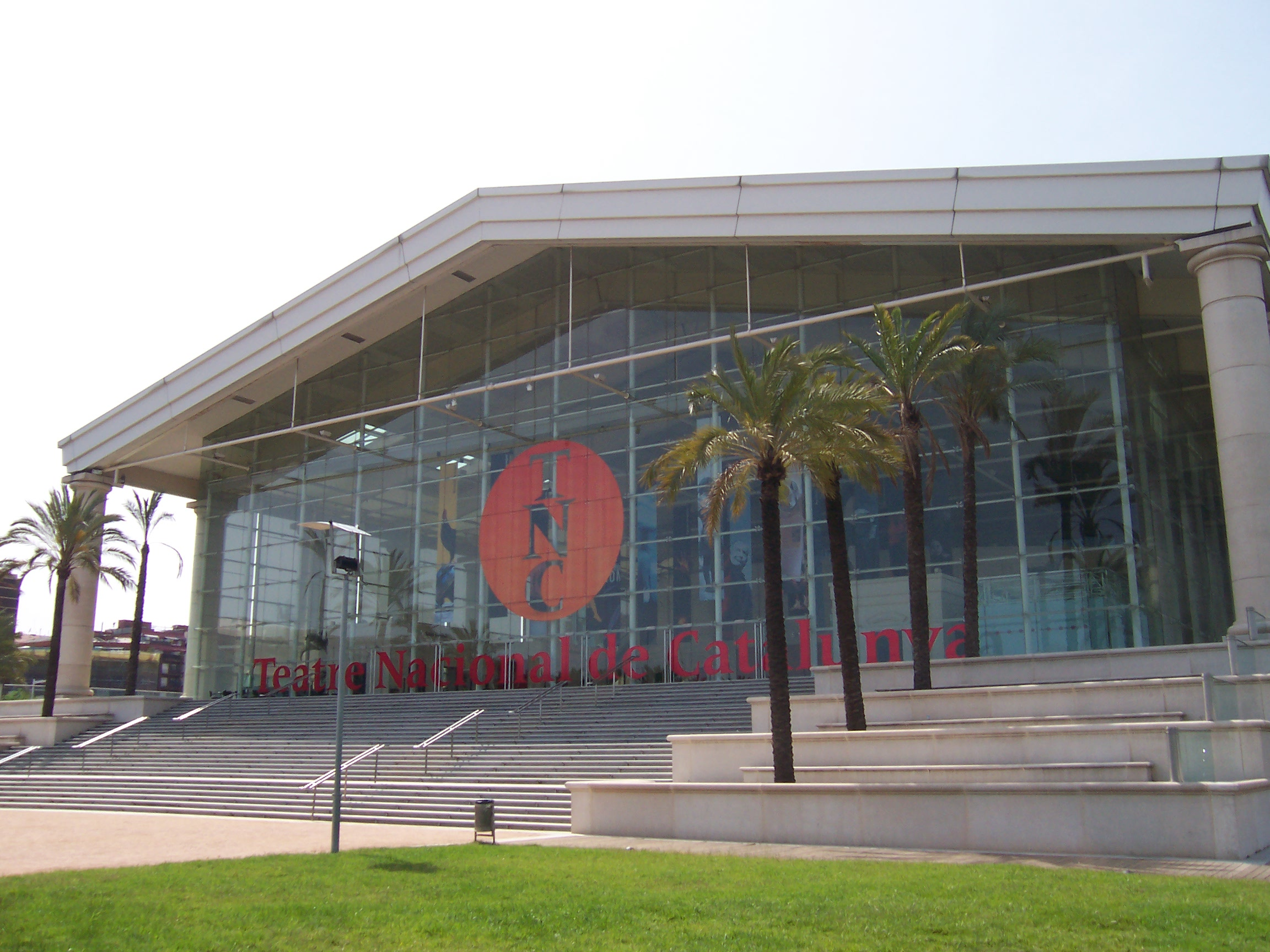 Catalunya National Theater, in Barcelona.